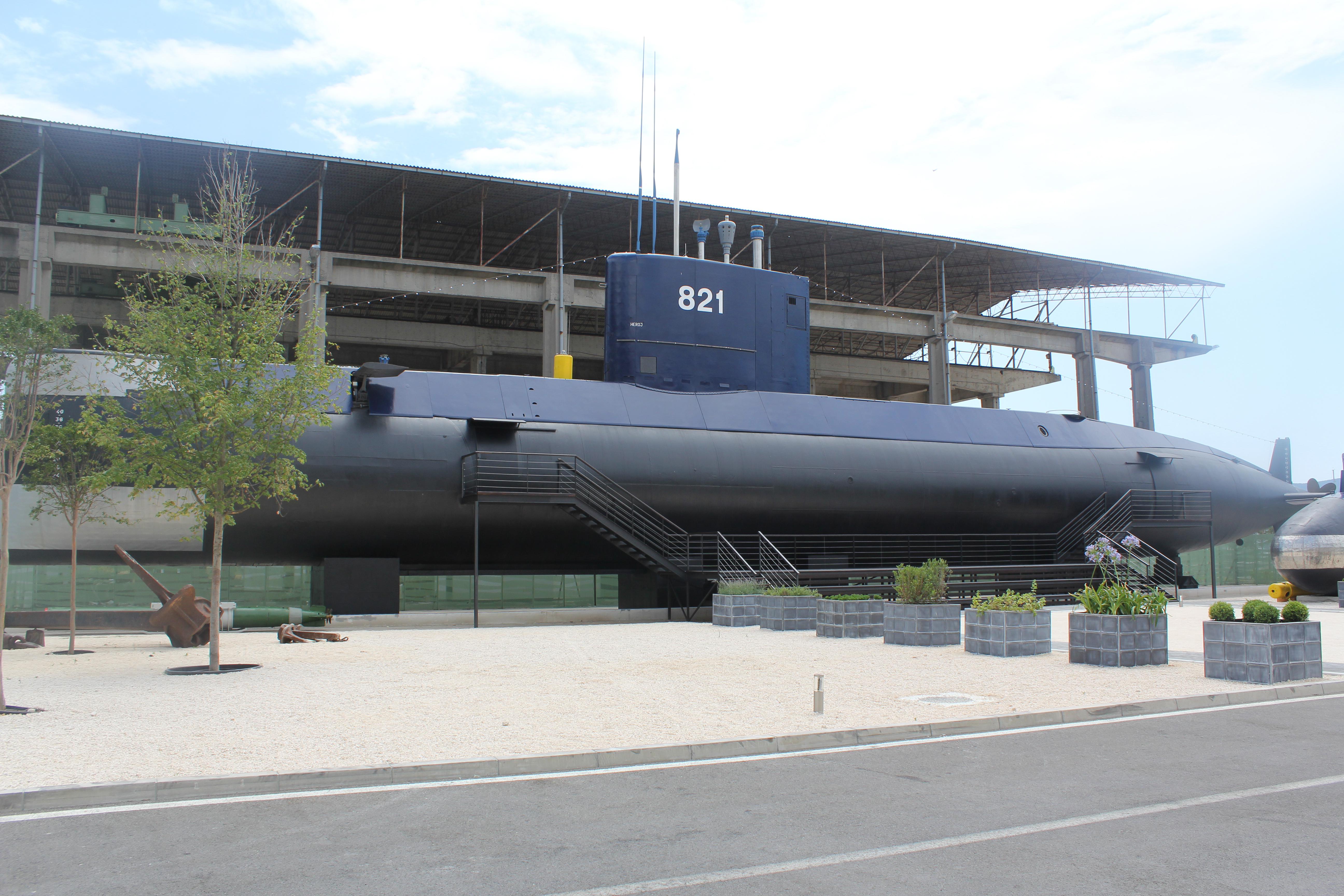 Heroj (P-821) submarine at Naval Heritage Collection, Tivat